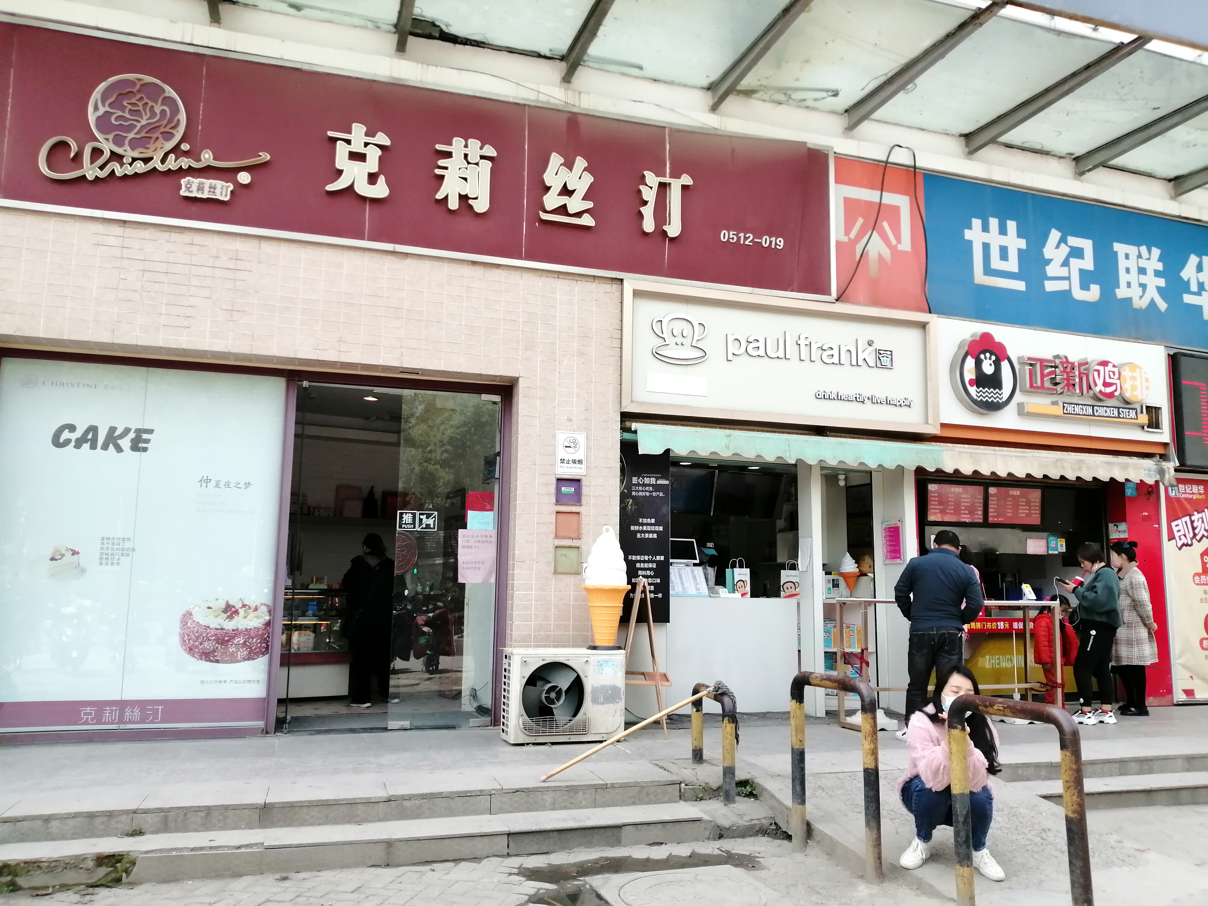 The lagrgest bakery chain in China, but the store is in danger...